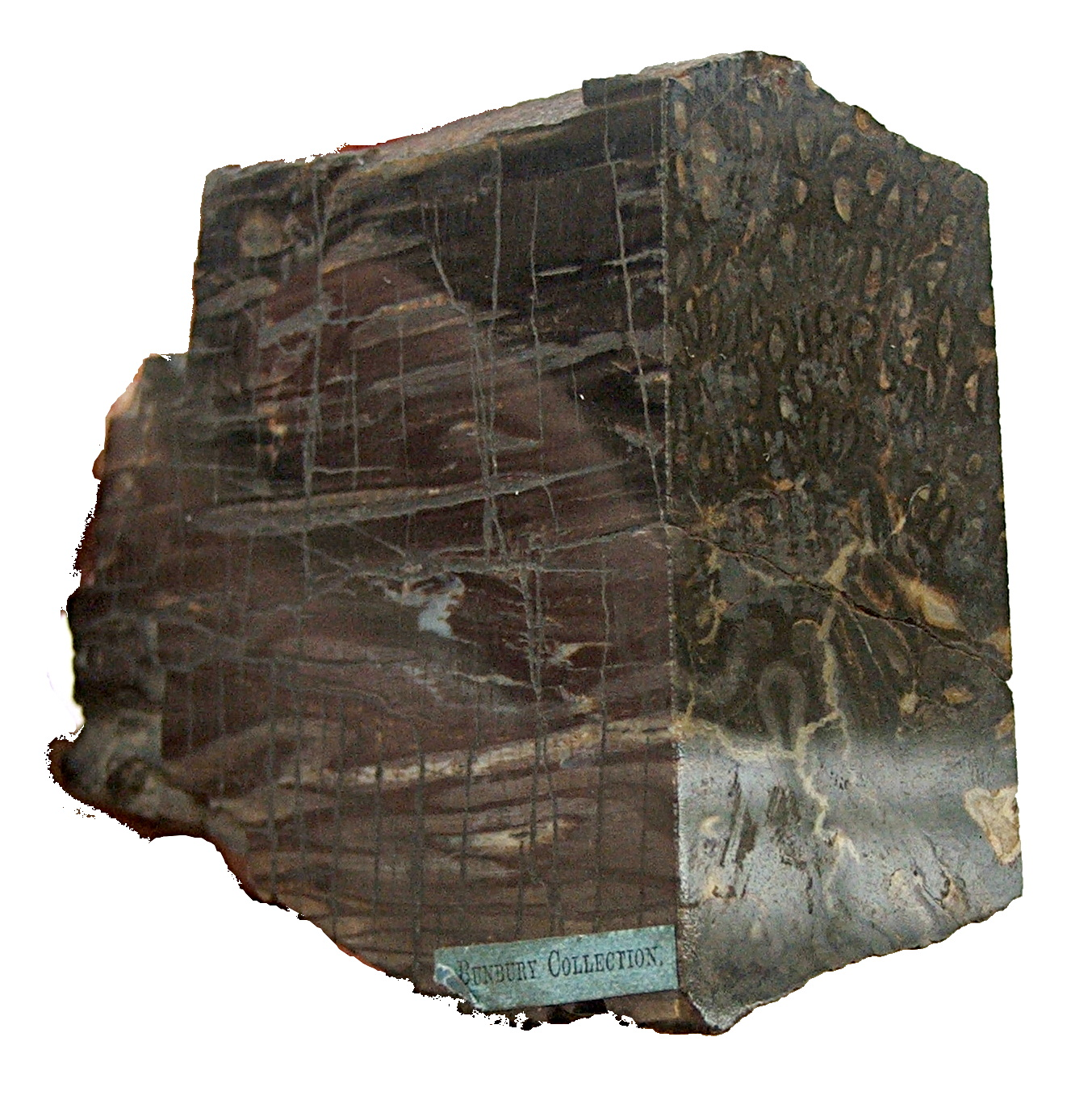 Psaronius from the Sedgwick Museum's Bunberry collection.